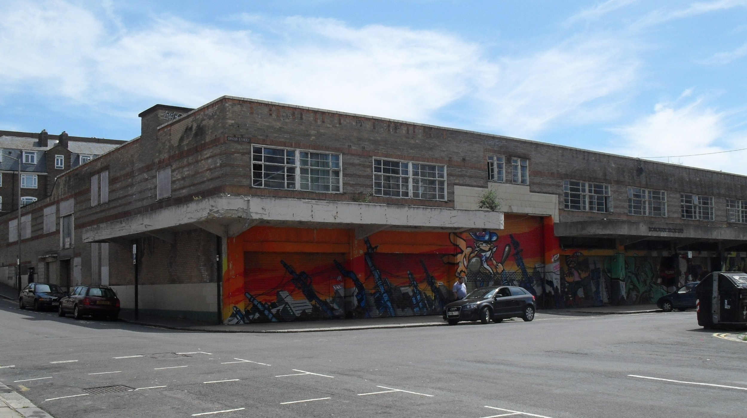 Circus Street Municipal Market, Brighton, City of Brighton and Hove, England. Built by Brighton Corporation in the late 1930s after slum clearance in the area immediately east of Grand Parade. One of the buildings cleared was the former Sussex Street Strict Baptist Chapel, which had latterly been a mission hall operated by St Margaret's Church. The market itself was demolished in 2015.